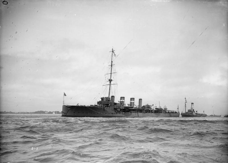 British scout cruiser HMS BLANCHE.